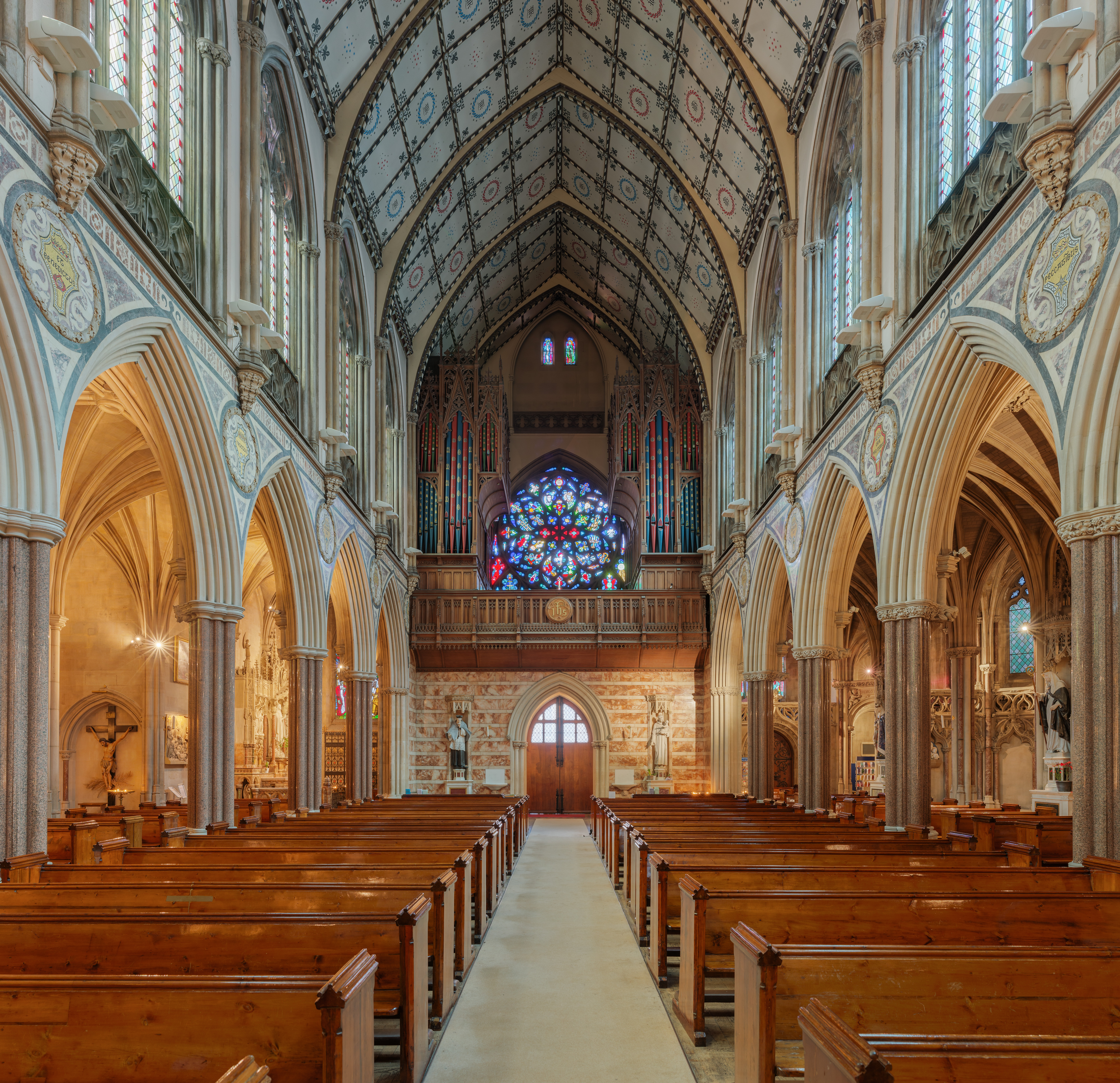 The organ and entrance of the Immaculate Conception Church, Farm Street, London, England.